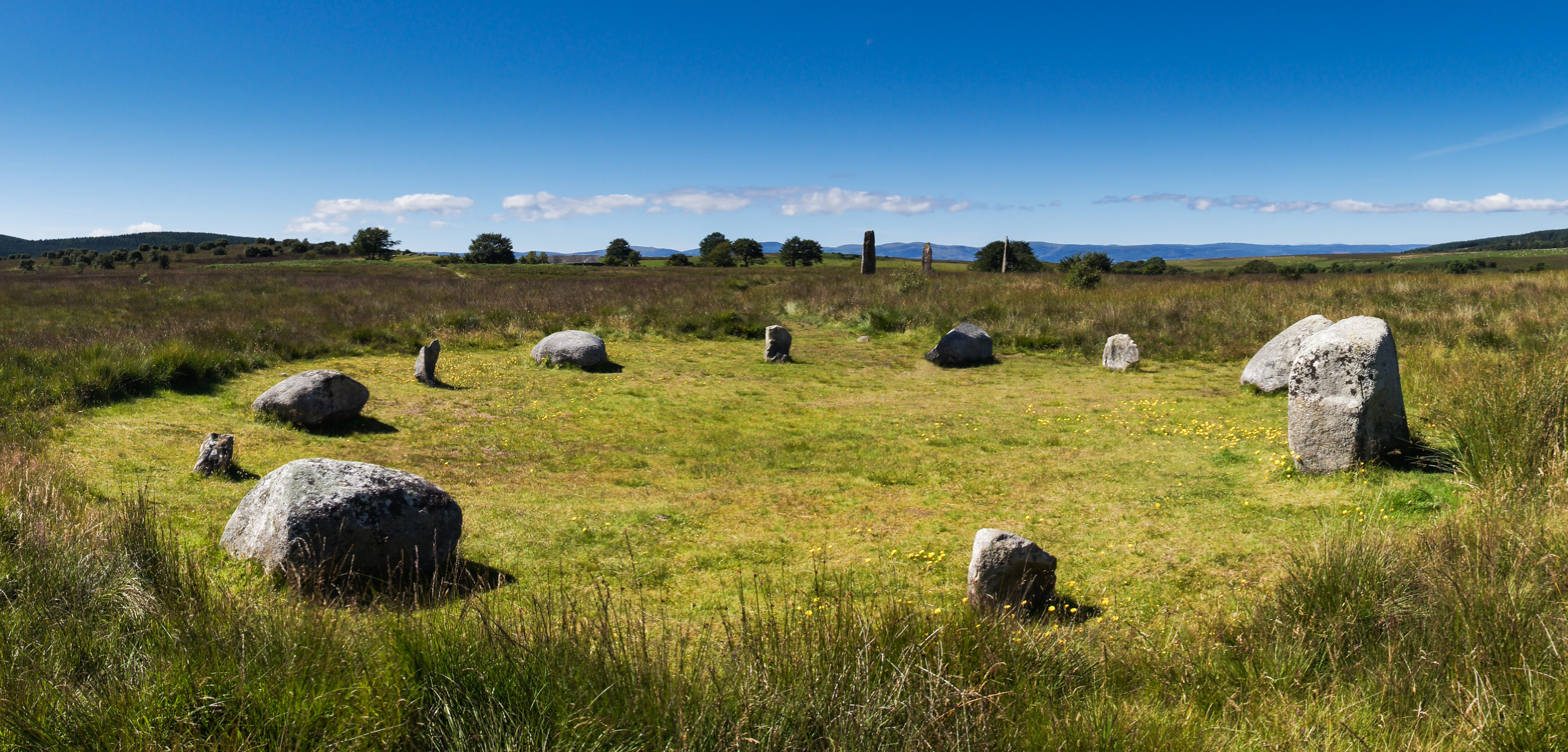 Circle 1 at Machrie Moor. In the middle distance is circle 2.